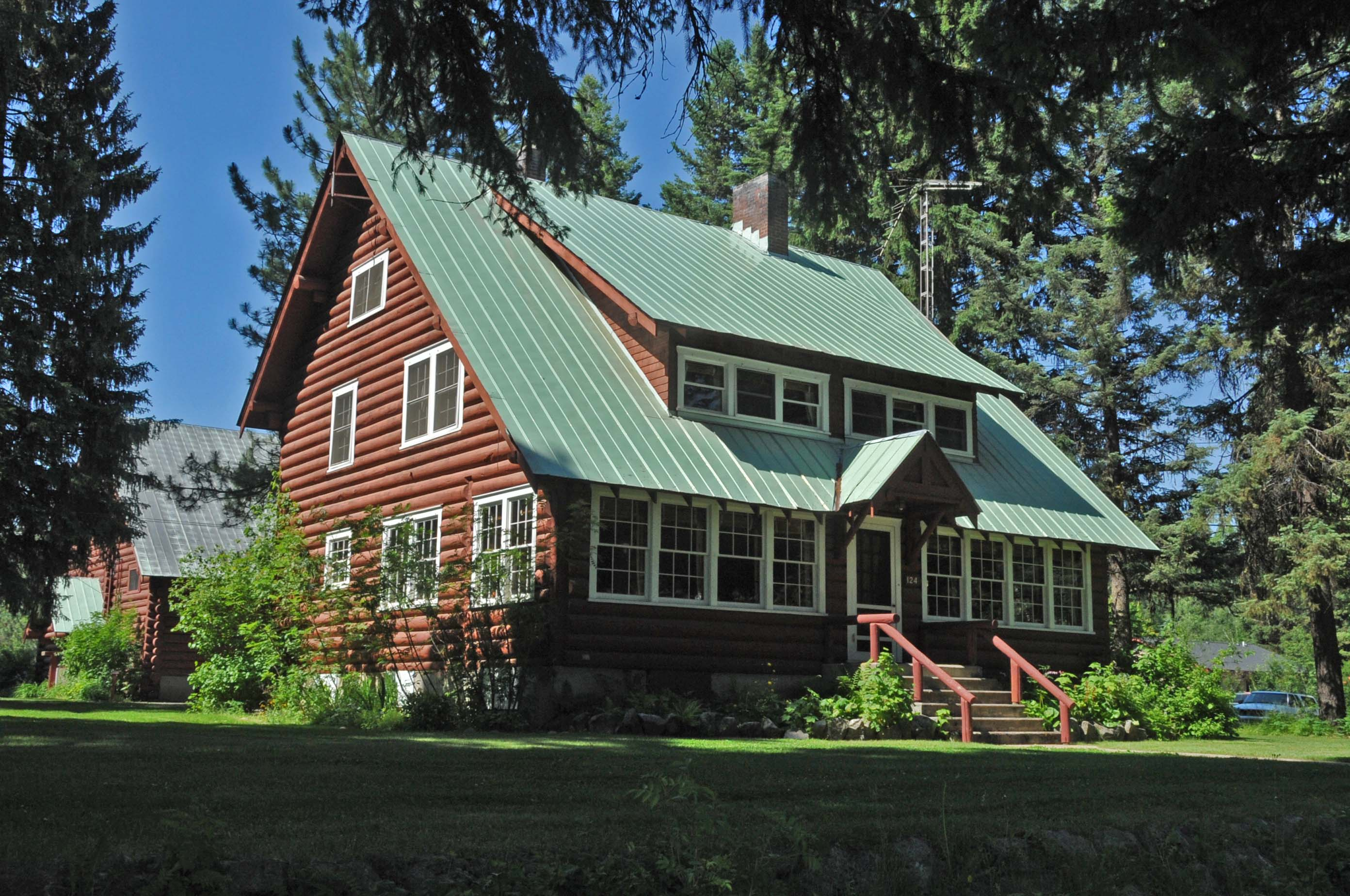 THE SOUTHERN IDAHO TIIMBER PROTECTION ASSOCIATION BUILDING IN MCCALL, VALLEY COUNTY IS NOW OCCUPIED BY THE CENTRAL IDAHO HISTORICAL MUSEUM